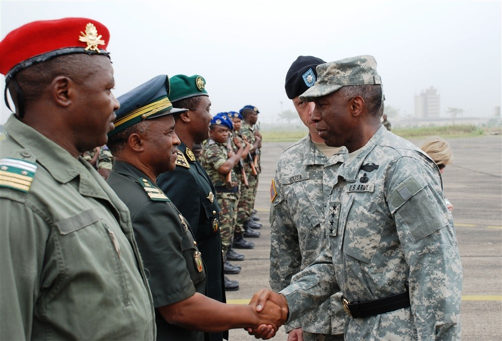 DOUALA, Cameroon — Army Gen. William "Kip" Ward greets officers of the Cameroonian military after his arrival Feb. 21 on his first trip to Cameroon as the commander of U.S. Africa Command. While in Cameroon Ward discussed bi-lateral military relations, and AFRICOM's role and mission with Cameroonian President Paul Biya, Prime Minister Ephraim Inoni and other senior Cameroonian officials. He also visited the USS Fort McHenry, command ship of Africa Partnership Station (APS). "Africa Partnership Station is a good example of what AFRICOM is all about," Ward said following the visit. "This U.S. Naval Forces Europe-led initiative provides for security of the people and assures long-term development. To date, APS operators have trained more than 600 African volunteer sailors from nine countries in areas such a leadership, Maritime Security Awareness, small boat handling, and martial arts."